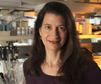 Julie A. Segre, Ph.D. Senior Investigator, National Human Genome Research Institute (NHGRI), National Institutes of Health (NIH).